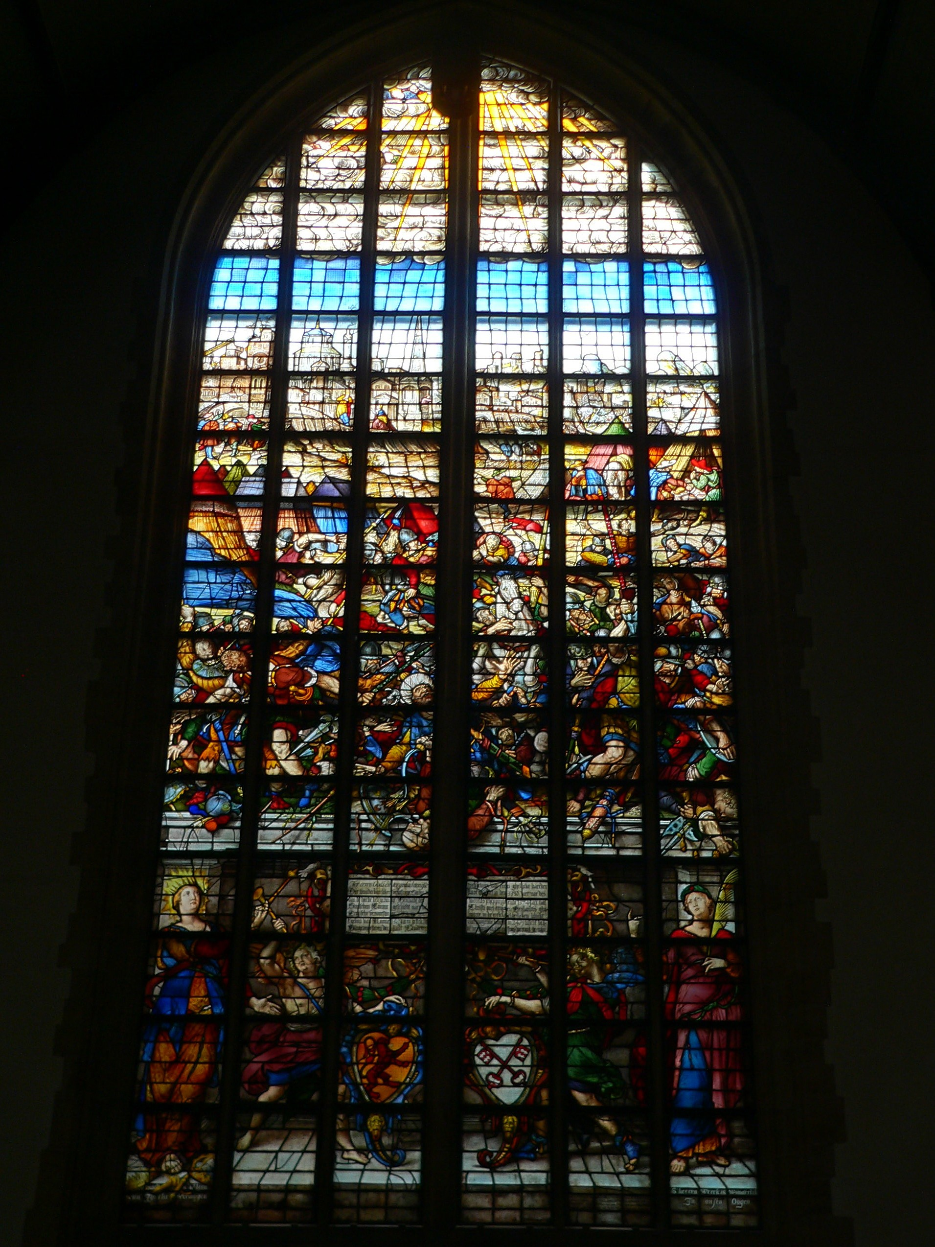 The stained-glass window number 26 in the Sint Janskerk at Gouda/Netherlands: "The relief of Samaria"